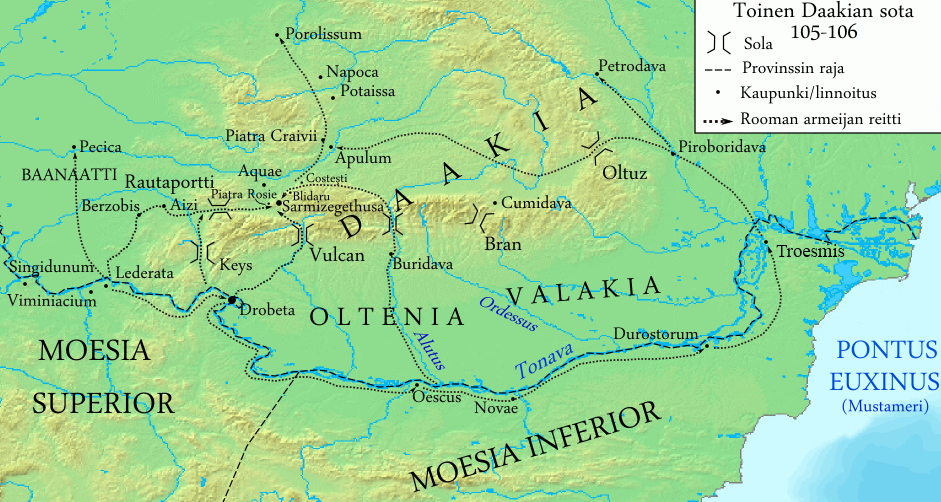 Map of the Second Dacian war 105-106 AD